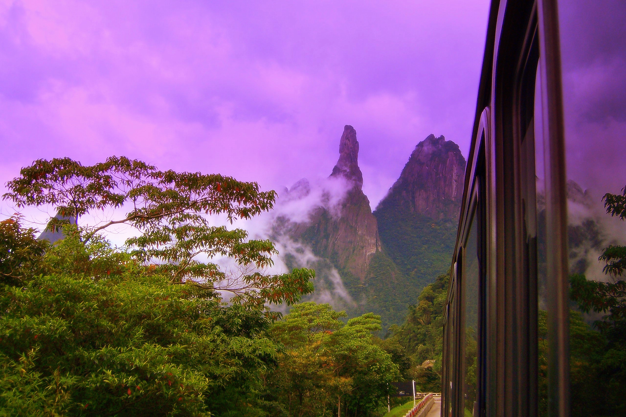 Teresopolis, RJ - Brazil